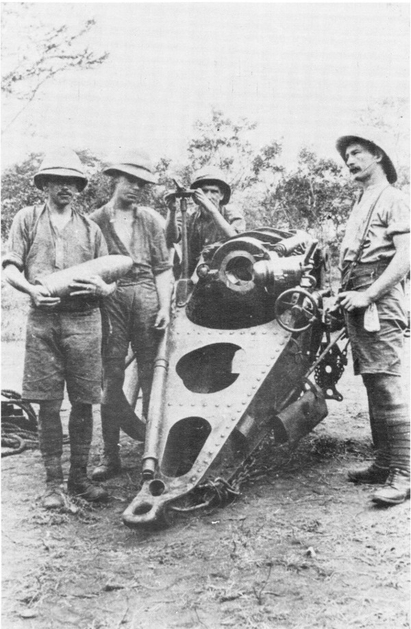 Photograph of gun crew and BL 5.4 inch howitzer, viewed from breech end. German East Africa campaign, World War I.